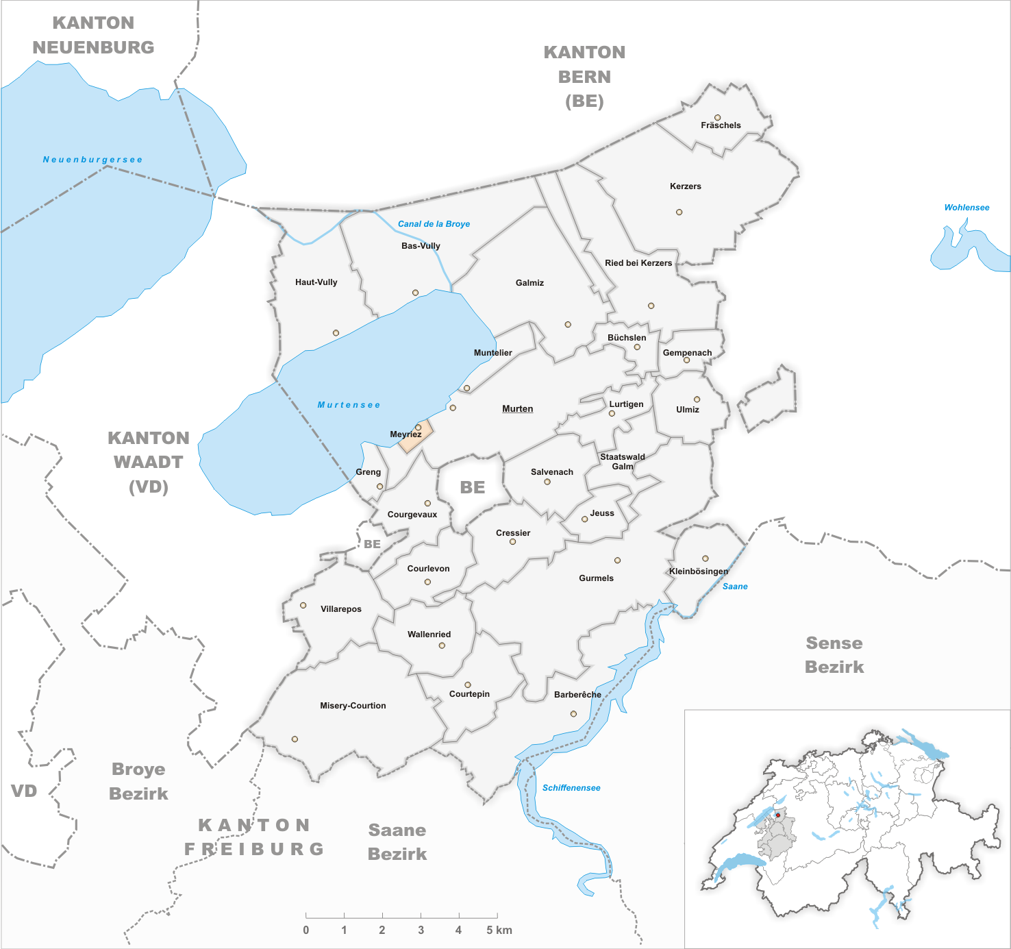 Municipality Meyriez